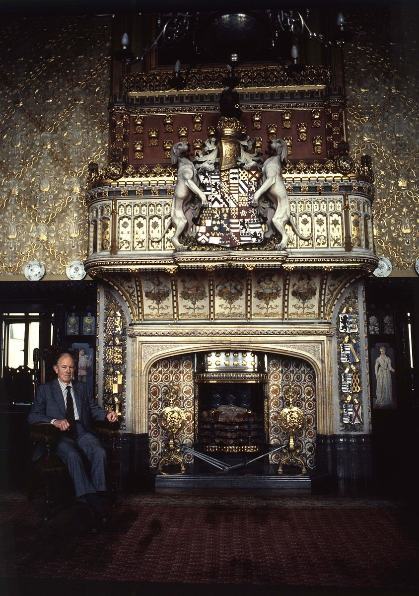 Miles Fitzalan Howard 17th Duke of Norfolk (1915-2002), in 1985 seated in the Venetian drawing room at Carlton Towers in Yorkshire, before a Victorian heraldic chimneypiece showing the arms of the Beaumont, Stapleton and Errington families, with quarterings and impalements. In 1971 he inherited Carlton Towers and the title Baron Beaumont on the death of his mother Mona Stapleton, 11th Baroness Beaumont, whose paternal ancestor had changed his surname from Errington on inheriting the estate from his uncle Miles Stapleton, 1st Baronet (1626-1707) of Carlton, a descendant in a distant female line of the 1st Viscount Beaumont. Photo by Allan Warren